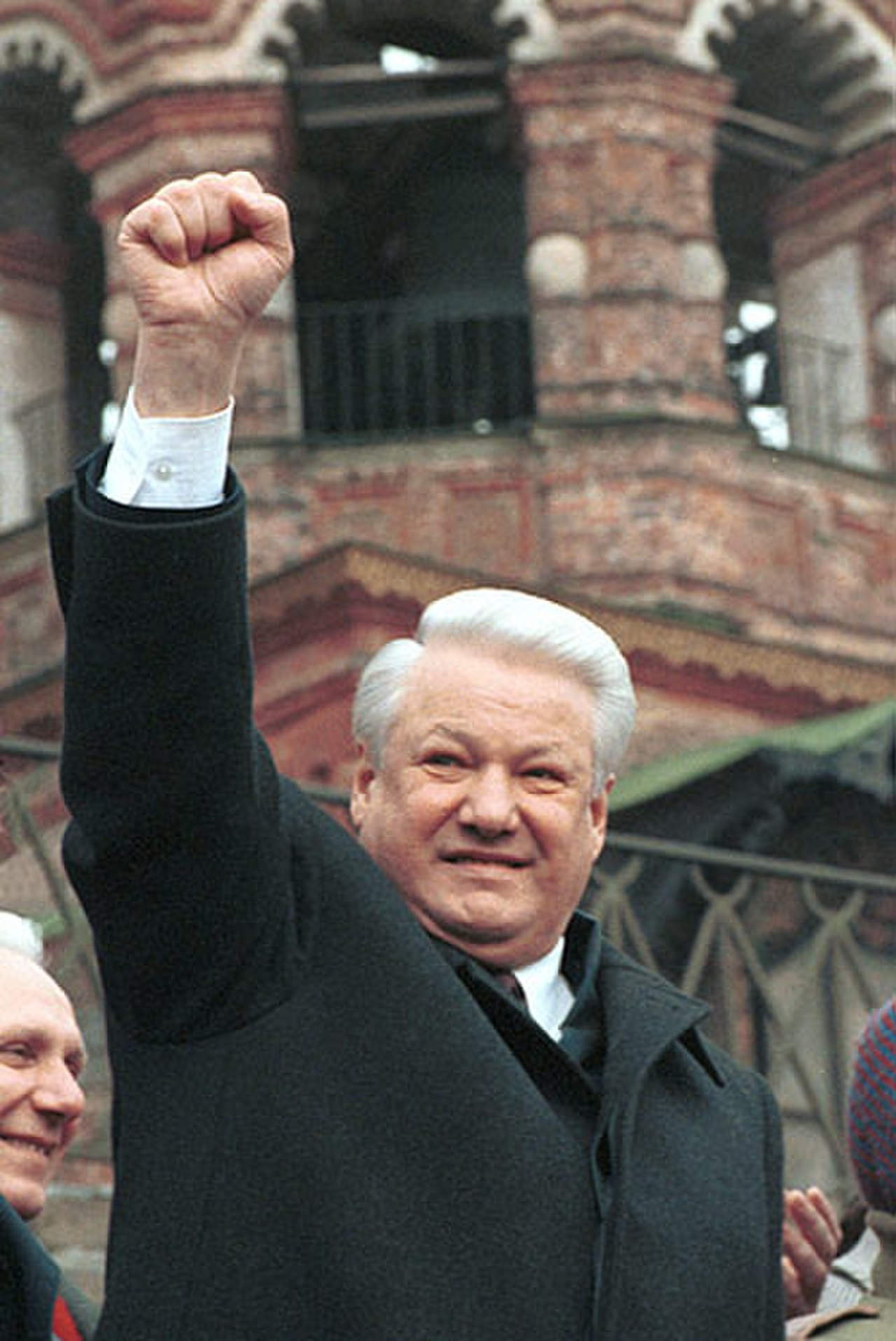 VASILEVSKII SPUSK, MOSCOW. March 1993. Boris Yeltsin speaking at a meeting of his supporters.